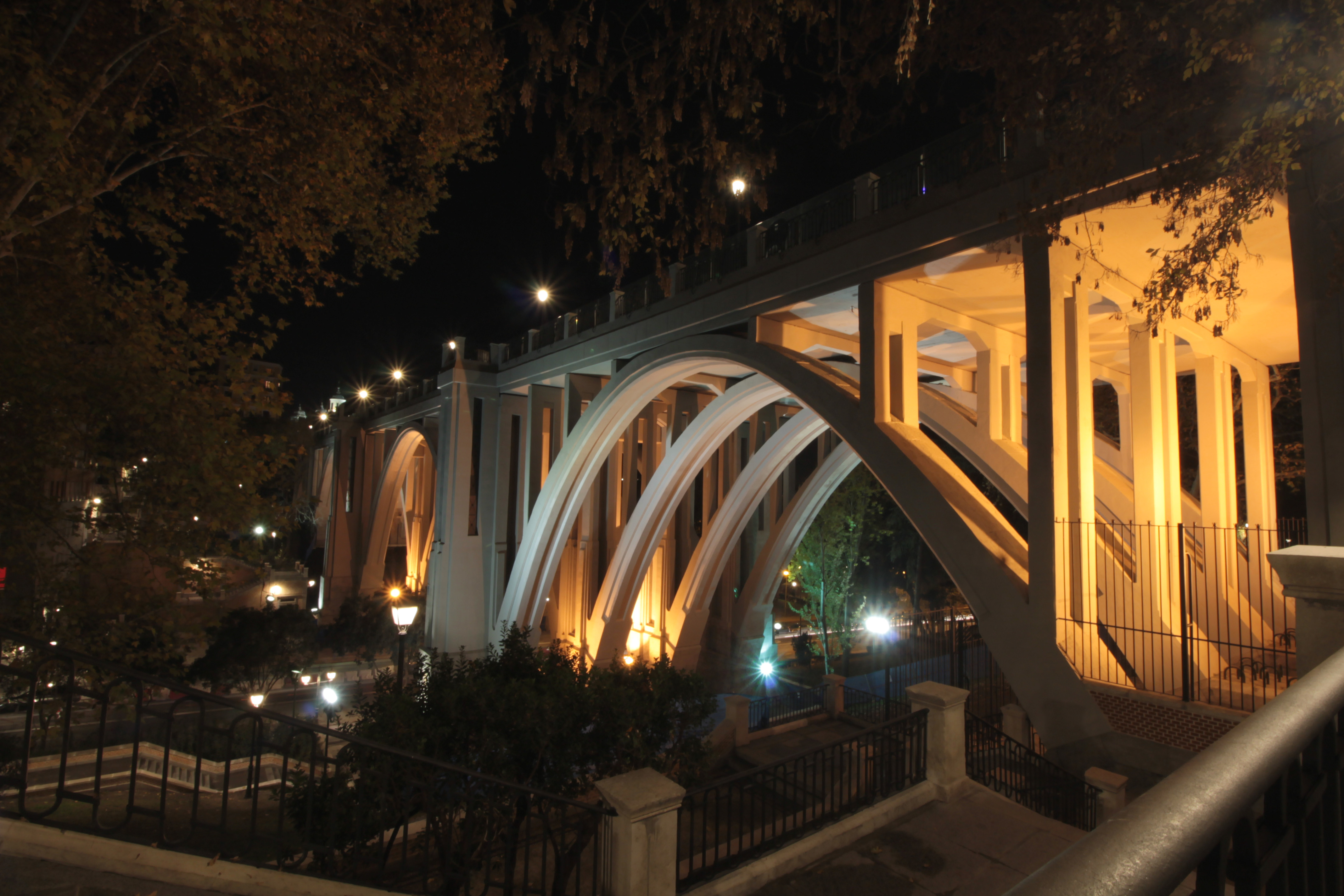 East side of Viaducto de Segovia (a viaduct) in Madrid (Spain).